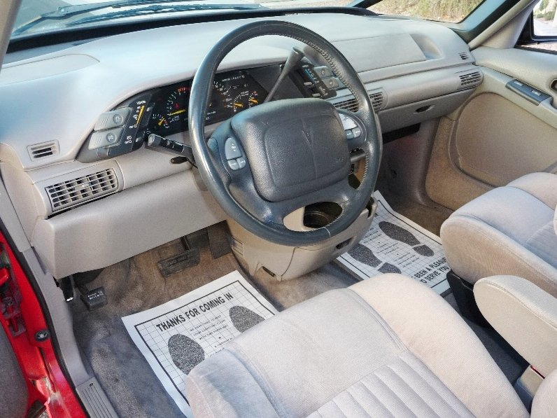 The awkwardly long distance from the dashboard to the windshield made it a difficult adjustment for drivers.